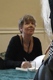 Norwegian author, Karin Fossum, at "Bloody Scotland", International Crime Writing Festival, Stirling, 15th Sept 2012